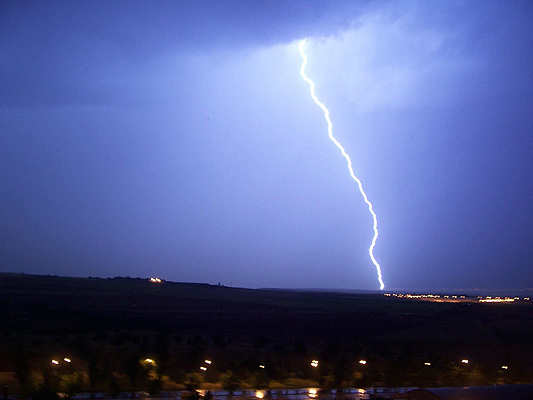 Storm in Spain.